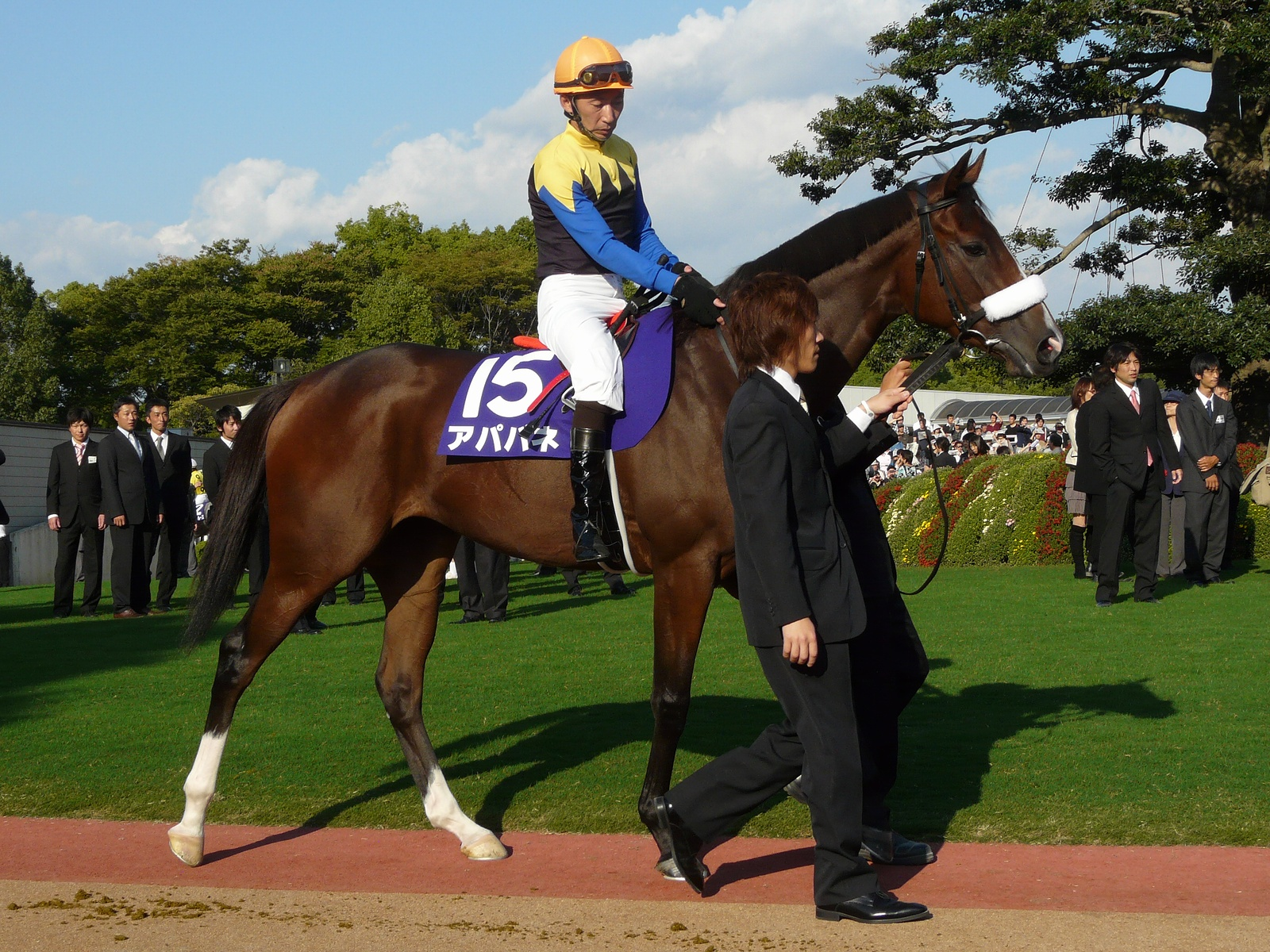 Apapane(horse)20101017(1)